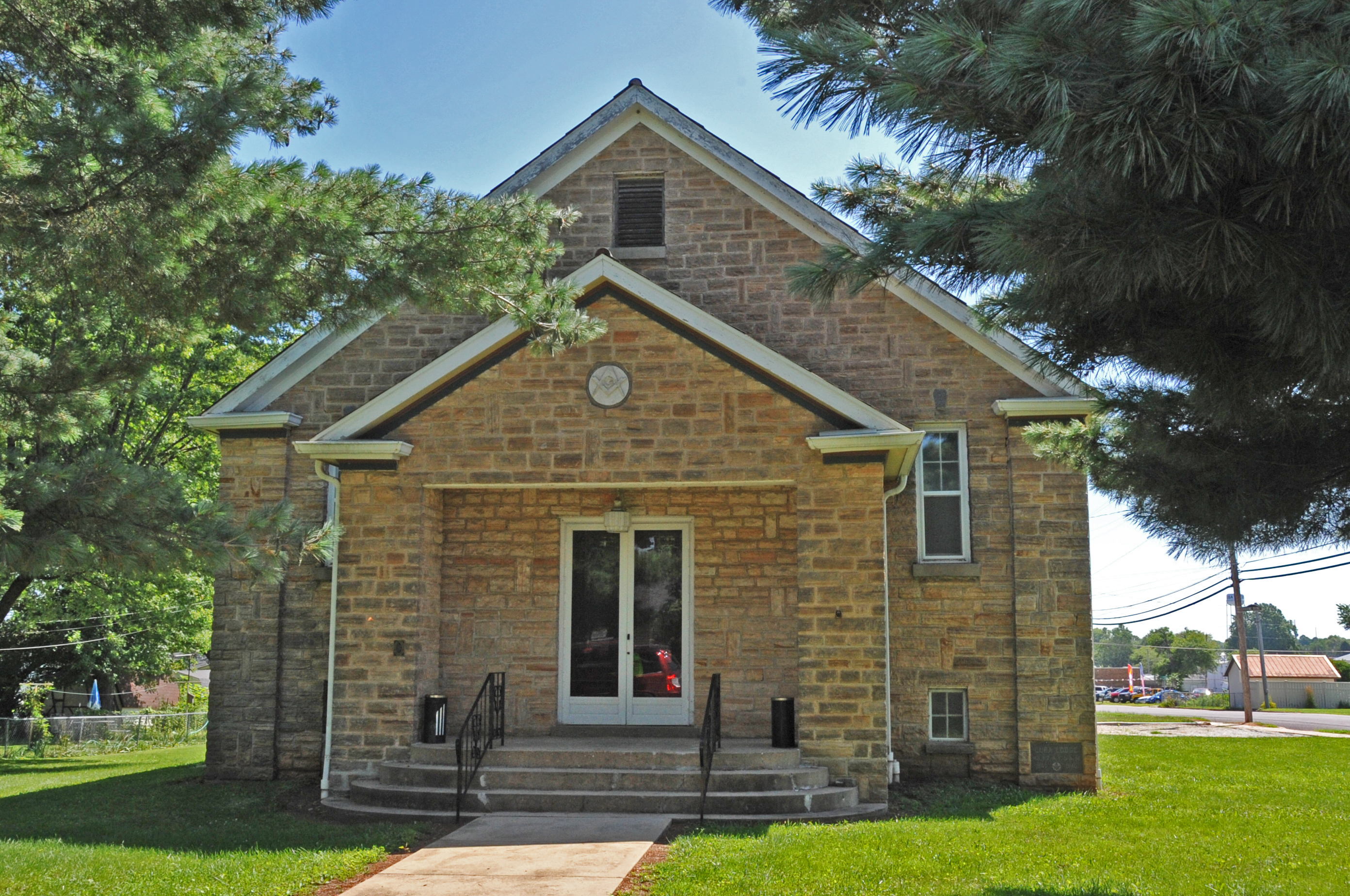 Completed in 1940 and built entirely of local stone, this fraternal hall was constructed as the first permanent and ultimately the final home of the ancient free and accepted masons of Cuba. Comprised of both coursed and random ashlar stonework.